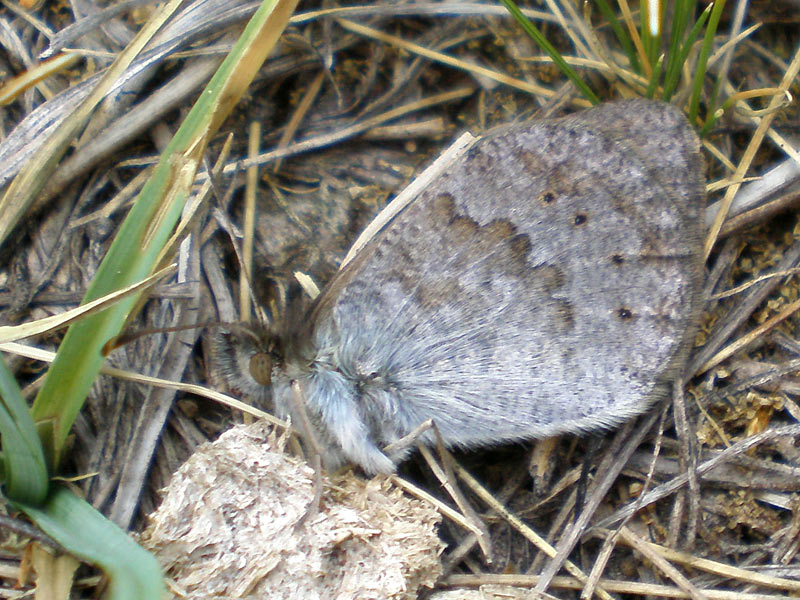 Near El Tarter, Canillo, Andorra. - August 16, 2007